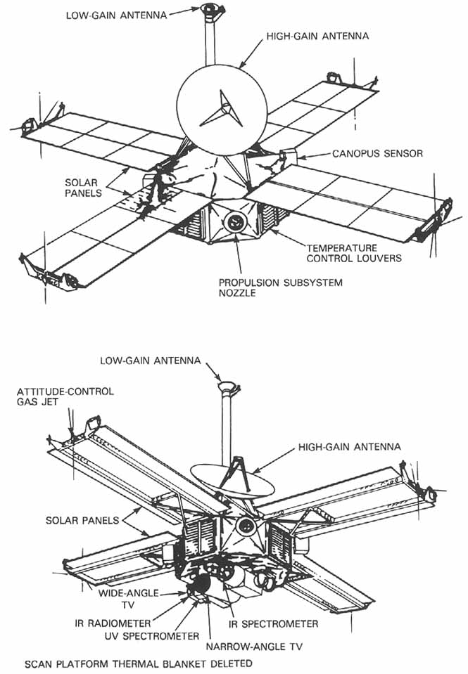 A diagrams of Mariner 6 & 7.